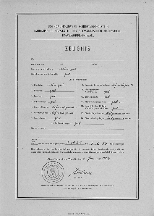 diploma of the sailor School Travemünde-Priwall of 5 January 1956